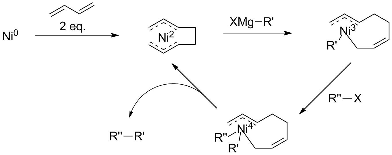 Catalytic cycle of Kumada coupling with addition of butadiene